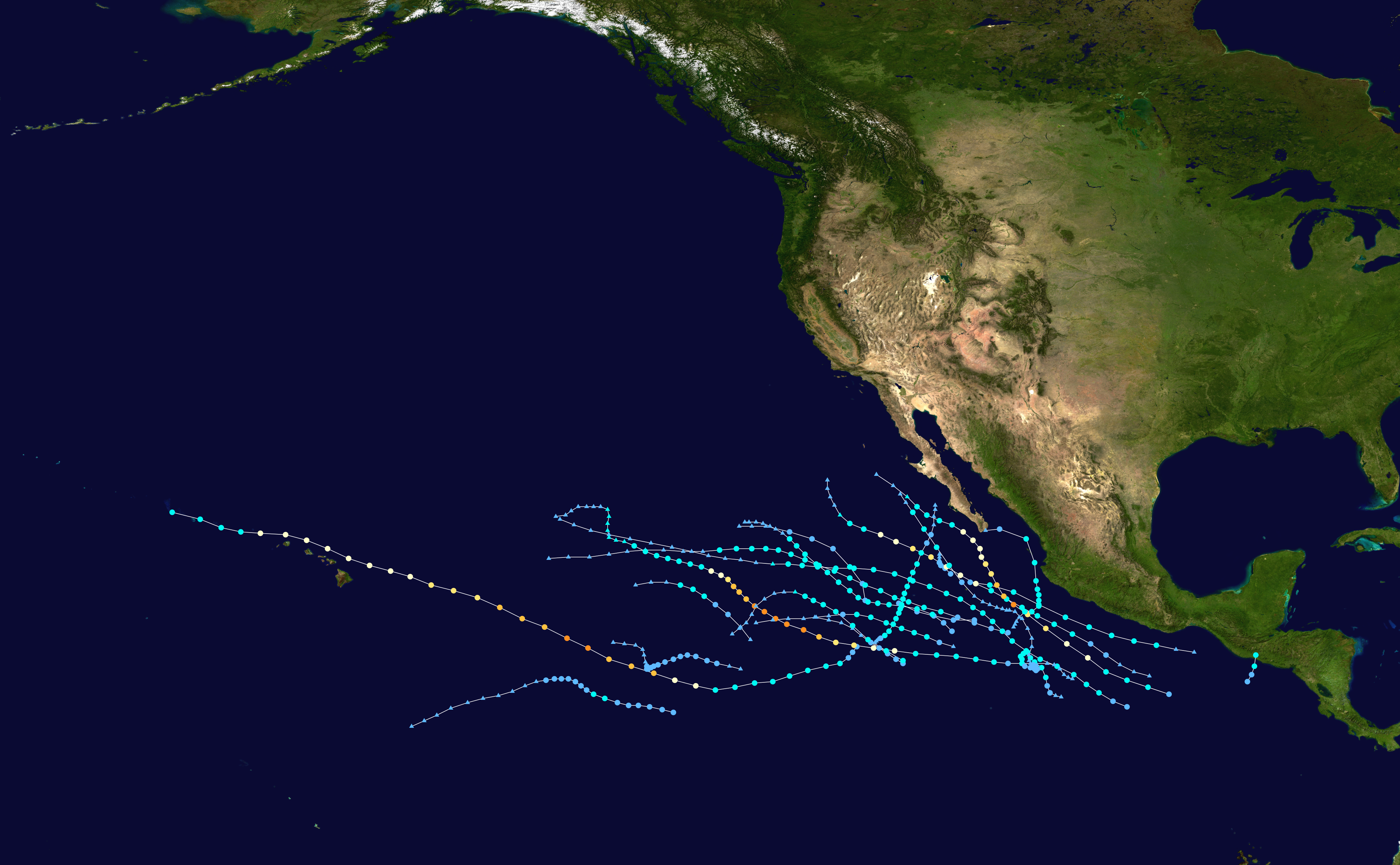 This map shows the tracks of all tropical cyclones in the 2020 Pacific hurricane season. The points show the location of each storm at 6-hour intervals. The colour represents the storm's maximum sustained wind speeds as classified in the Saffir-Simpson Hurricane Scale (see below), and the shape of the data points represent the type of the storm. Saffir–Simpson scale Tropical depression≤38 mph≤62 km/h Category 3111–129 mph178–208 km/h Tropical storm39–73 mph63–118 km/h Category 4130–156 mph209–251 km/h Category 174–95 mph119–153 km/h Category 5≥157 mph≥252 km/h Category 296–110 mph154–177 km/h Unknown Storm type Tropical cyclone Subtropical cyclone Extratropical cyclone / Remnant low / Tropical disturbance / Monsoon depression